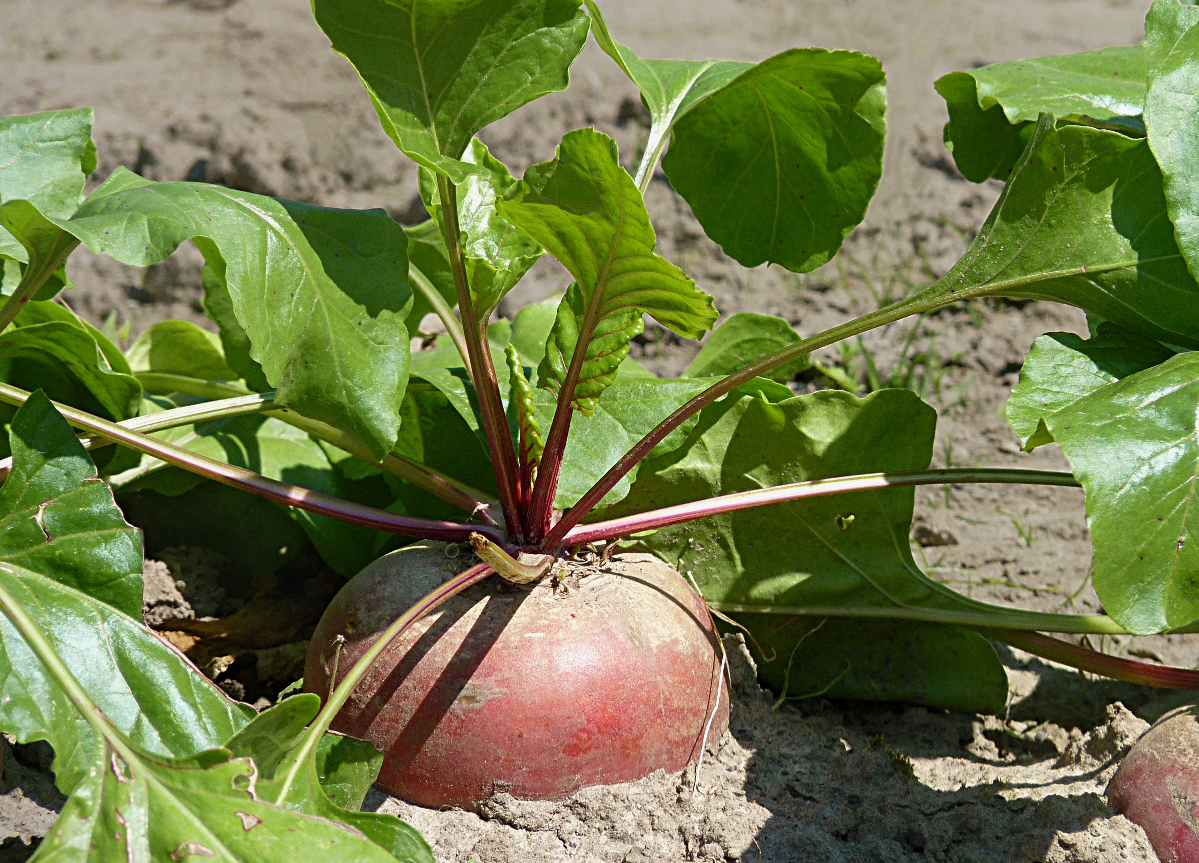 Beetroot, in a vegetable garden in Belgium. (Not a turnip)